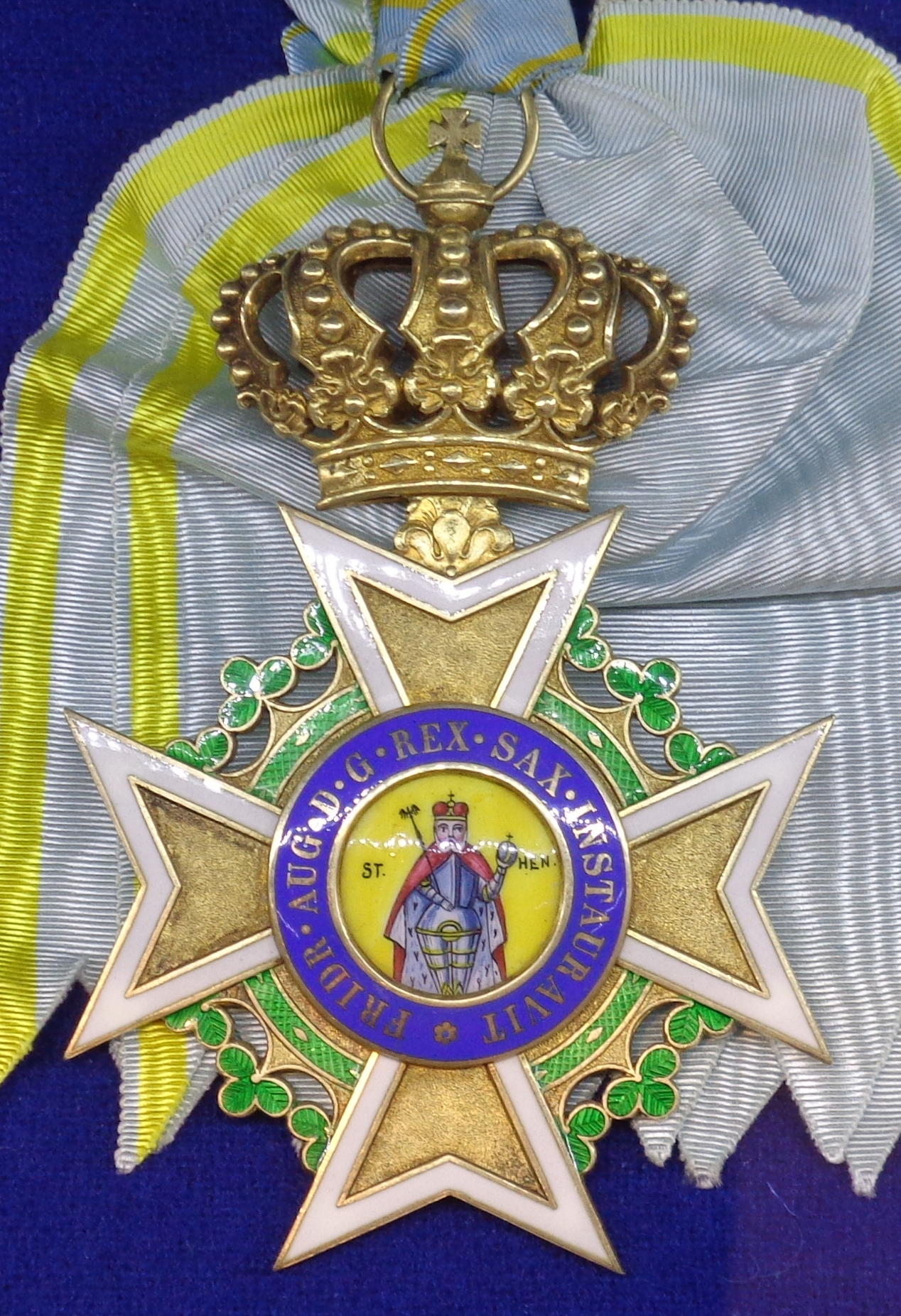 Military Order of Saint Henry, badge of Grand Cross, c.1916. Kingdom of Saxony. The exhibition of the Tallinn Museum of Orders of Knighthood, Estonia.